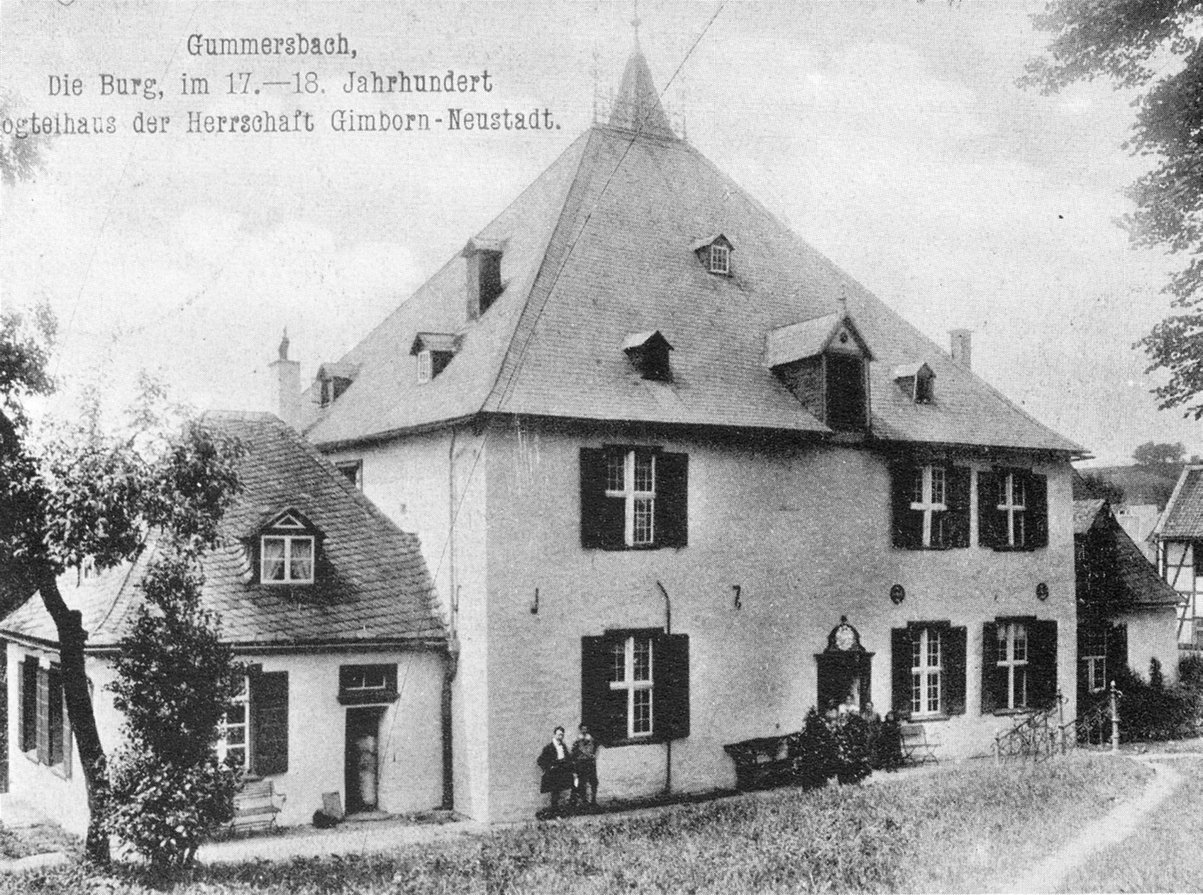 Historic reeve's domicile at Gummersbach, Germany. View from 1905 (postcard).